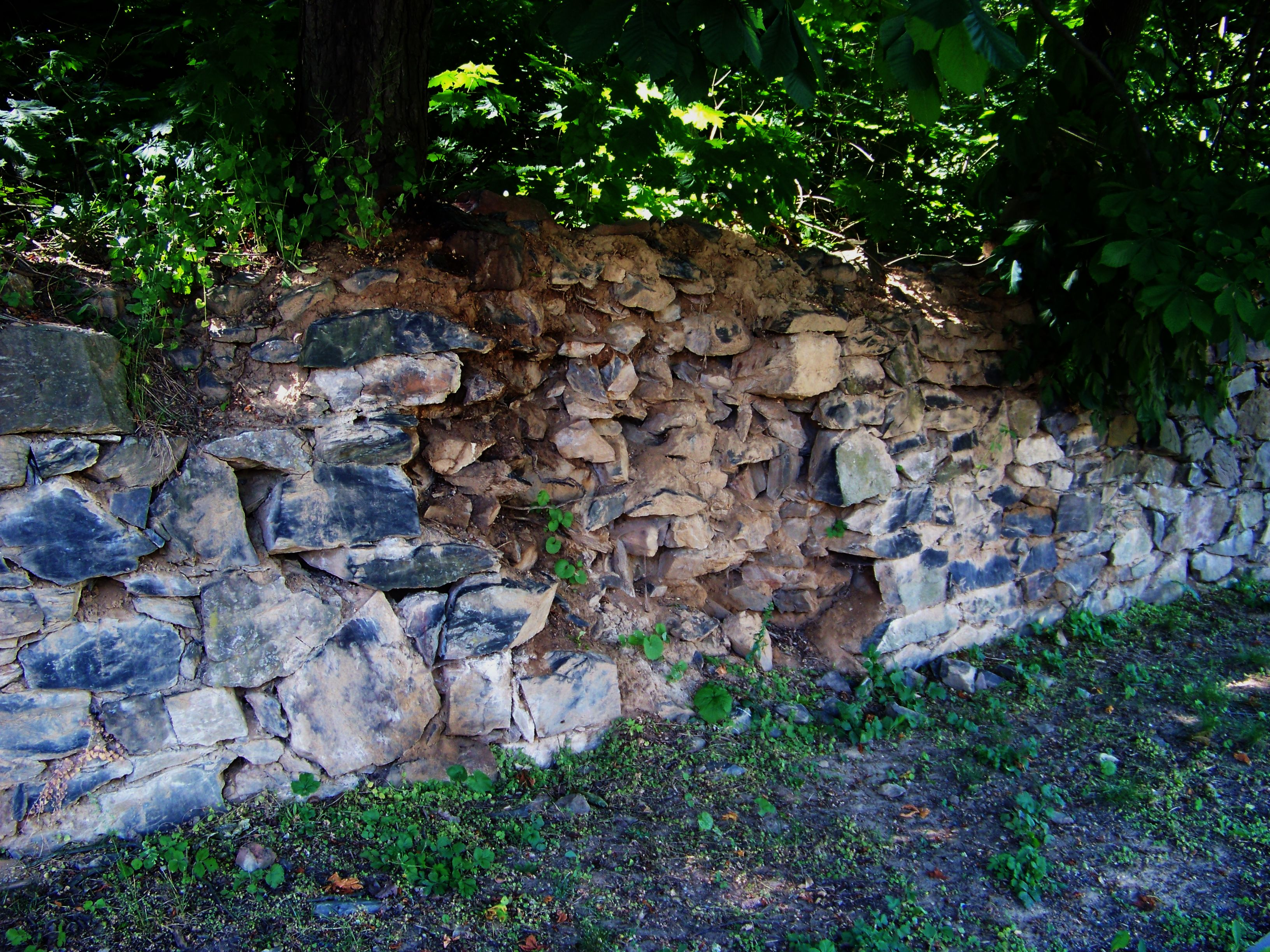 Prague-Sedlec, the Czech Republic. V Sedlci street, a stone wall.